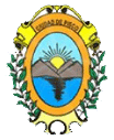 Coats of arms of city of Pisco, Peru